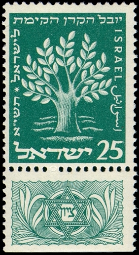 Jewish National Fund (J.N.F.) stamp - 25 mil. Inscription: "50th anniversary of the Jewish National Fund". Inscription on tab: "Zion"